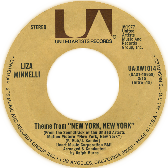 US vinyl release of "Theme from New York, New York" by Liza Minnelli